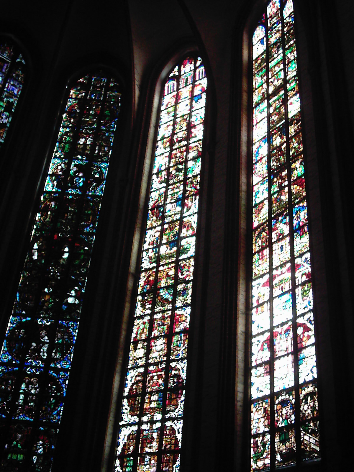 Window of Stendal Cathedral St. Nikolaus